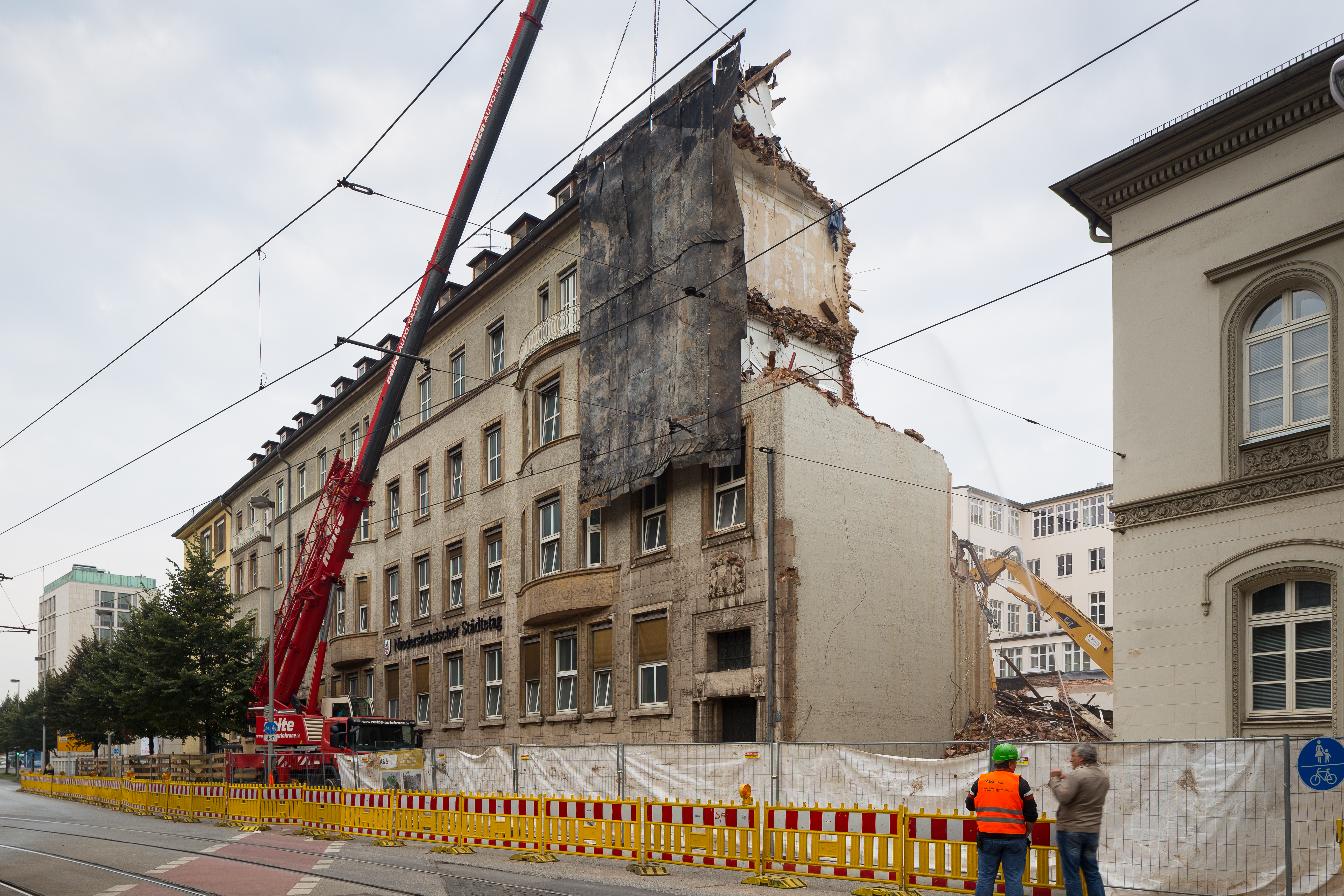 Demolition of Bankaus Caspar building located at Prinzenstrasse 23 in Hanover, Germany.